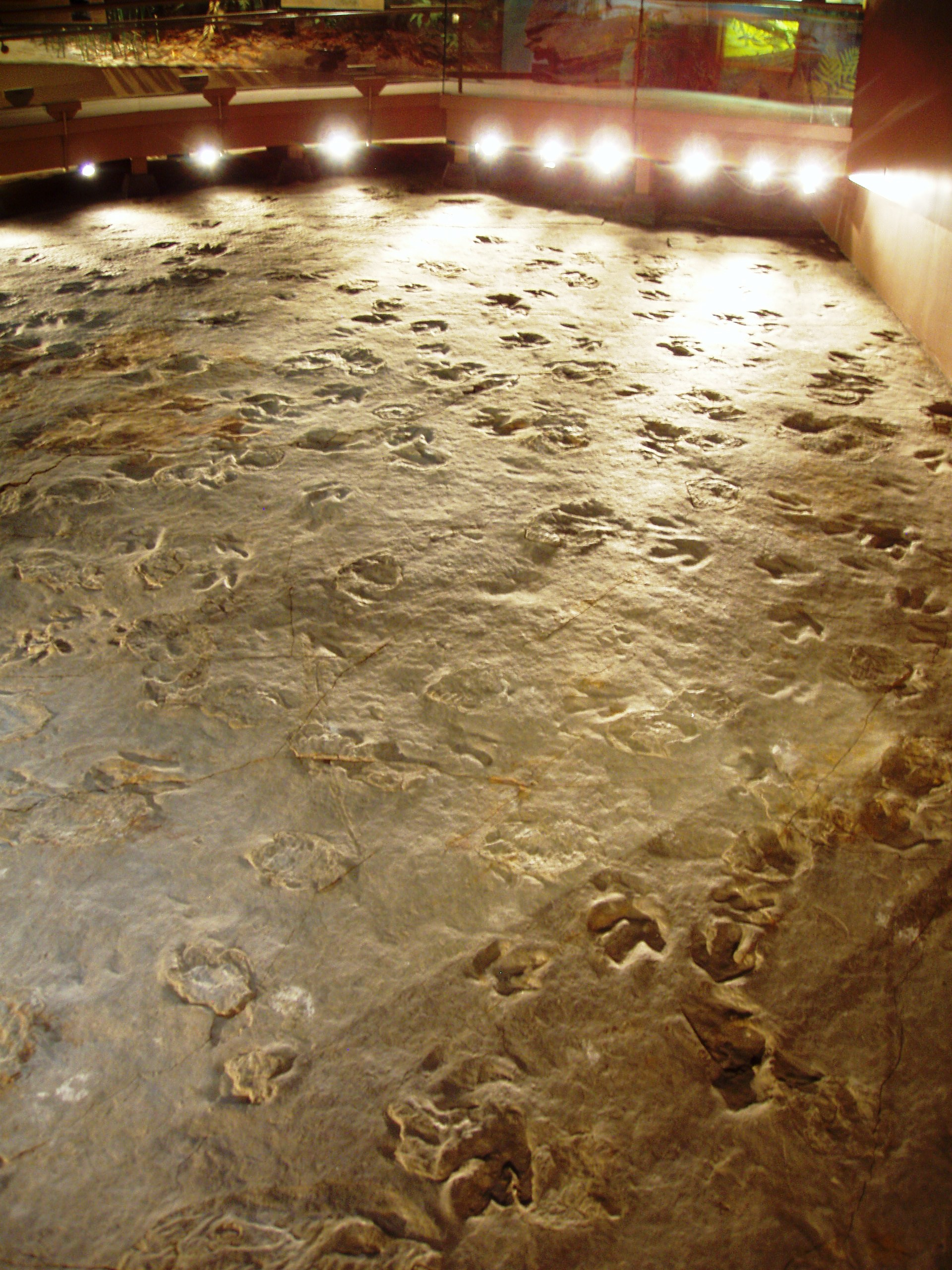 Dinosaur State Park and Arboretum, Rocky Hill, Connecticut, USA. General view of dinosaur prints.